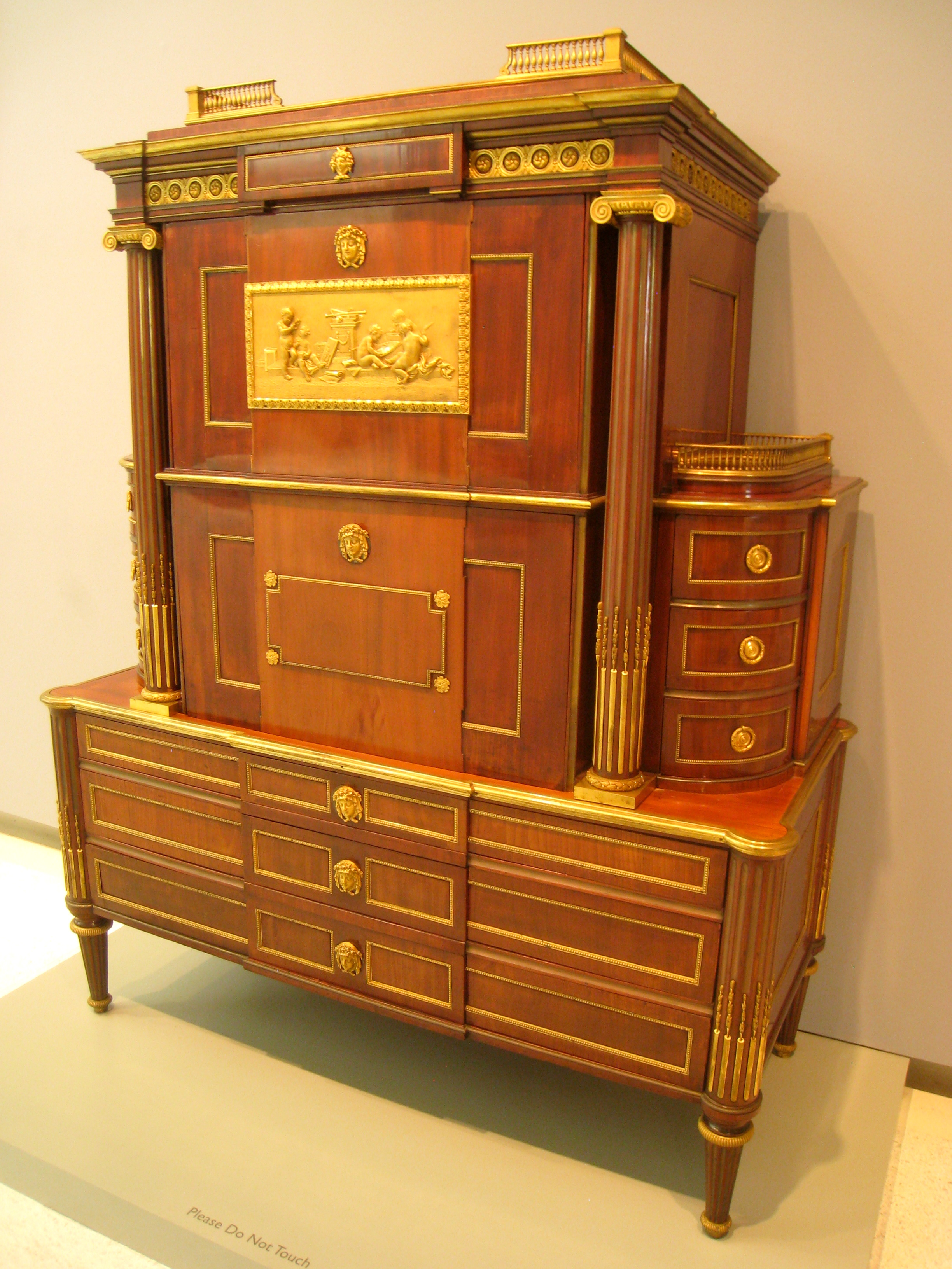 Cabinet, David Roentgen, c. 1780-1790, exhibited in the Carnegie Museum of Art, Pittsburgh, Pennsylvania, USA.